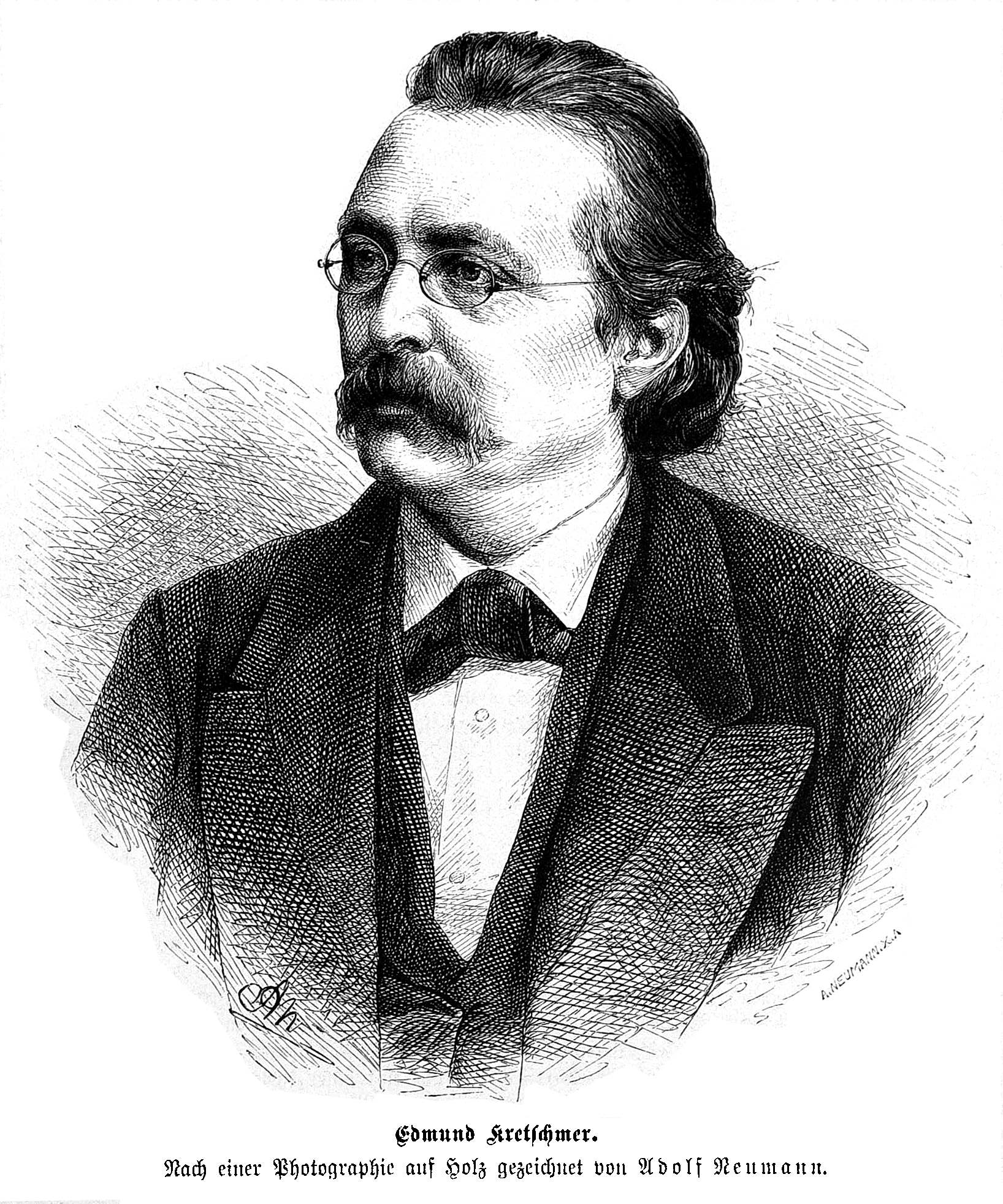 caption: "Edmund Kretschmer. Nach einer Photographie auf Holz gezeichnet von Adolf Neumann."